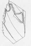 Stigmella villosella